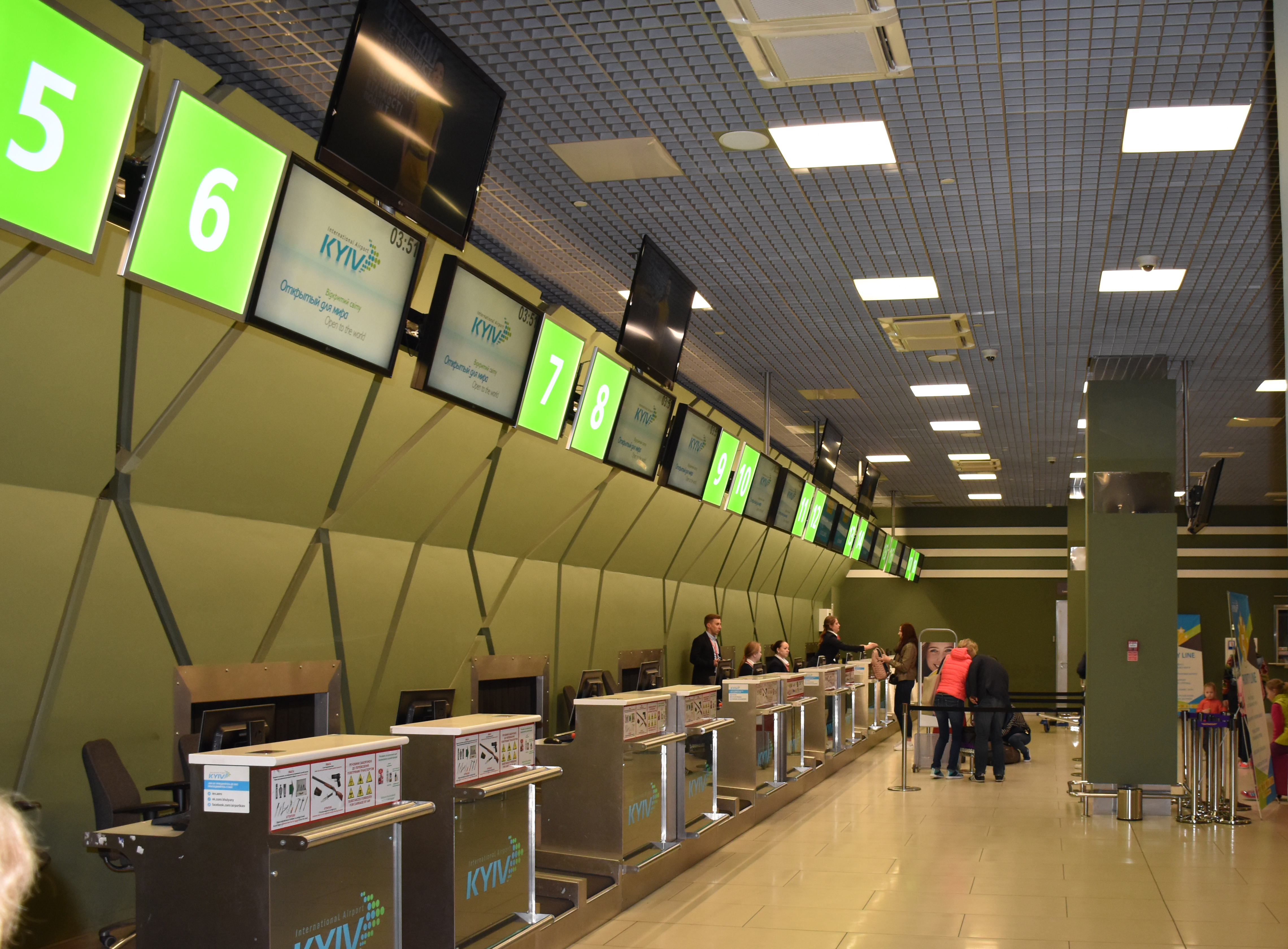 Check-in counters in Kyiv International Airport (Zhuliany).